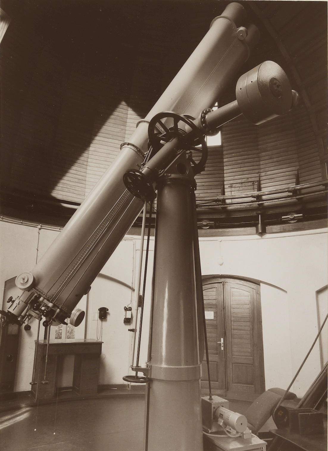 Scan of Photo of the Doppelrefraktor telescope in its building on the grounds of the (old) Observatory; from the archive of the Sternwarte, Univ. Bonn